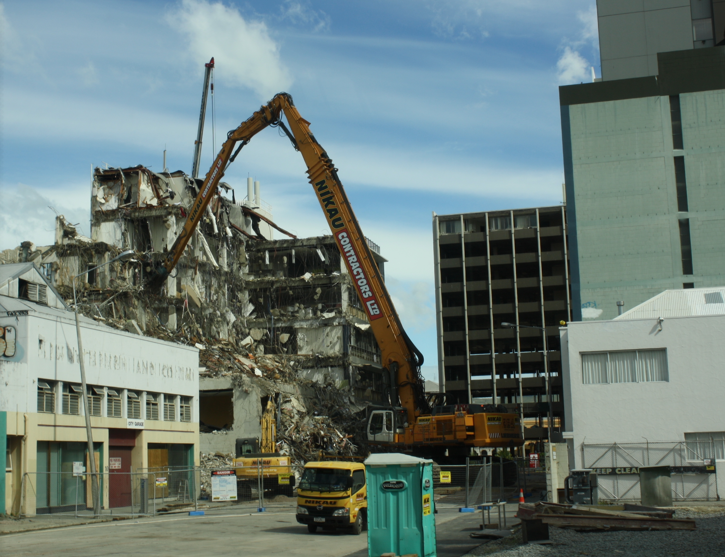 An office building in Liverpool Street, seen from Hereford Street across the site where the Kenton Chambers used to be.